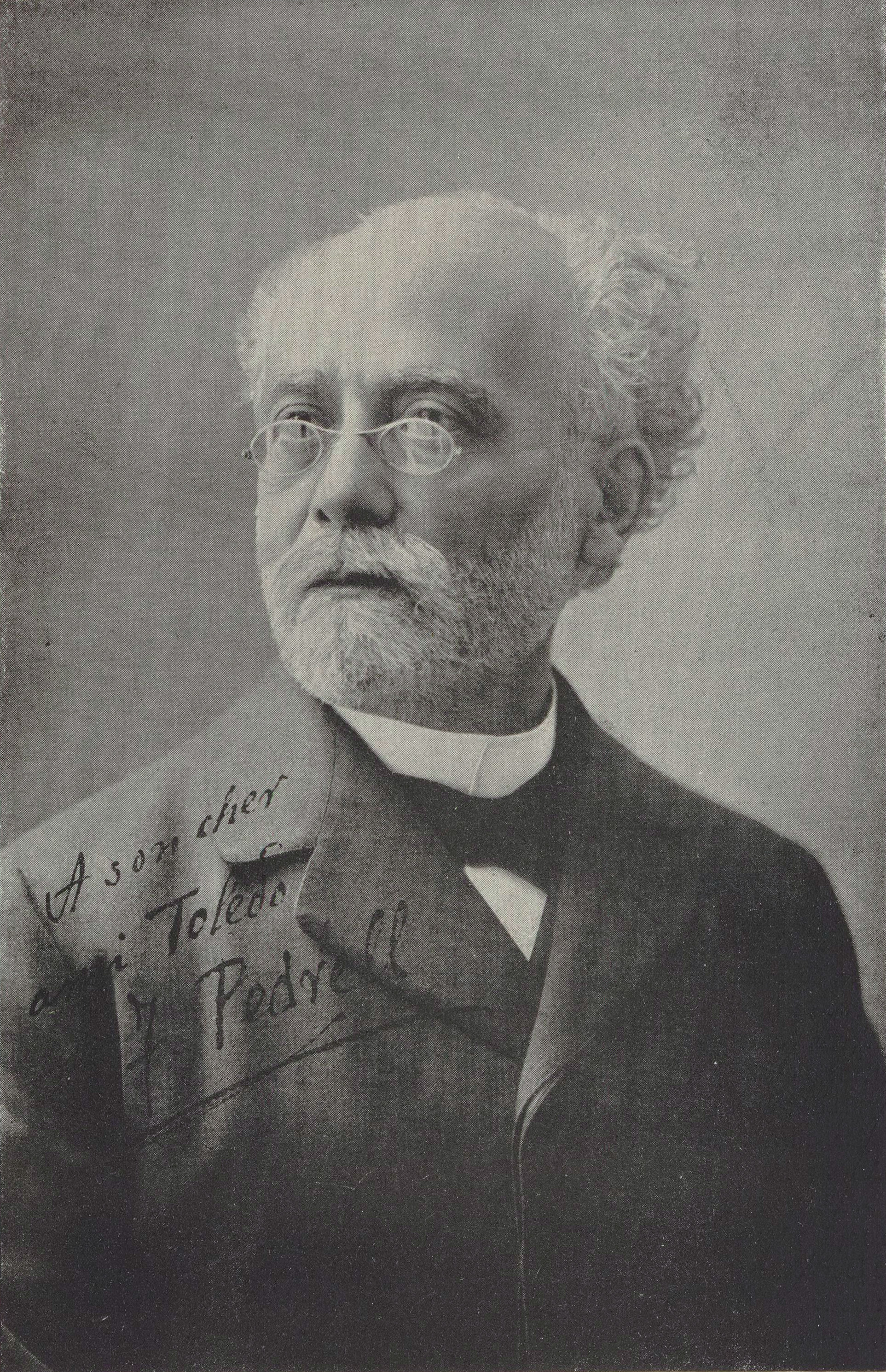 Depicted person: Felip Pedrell